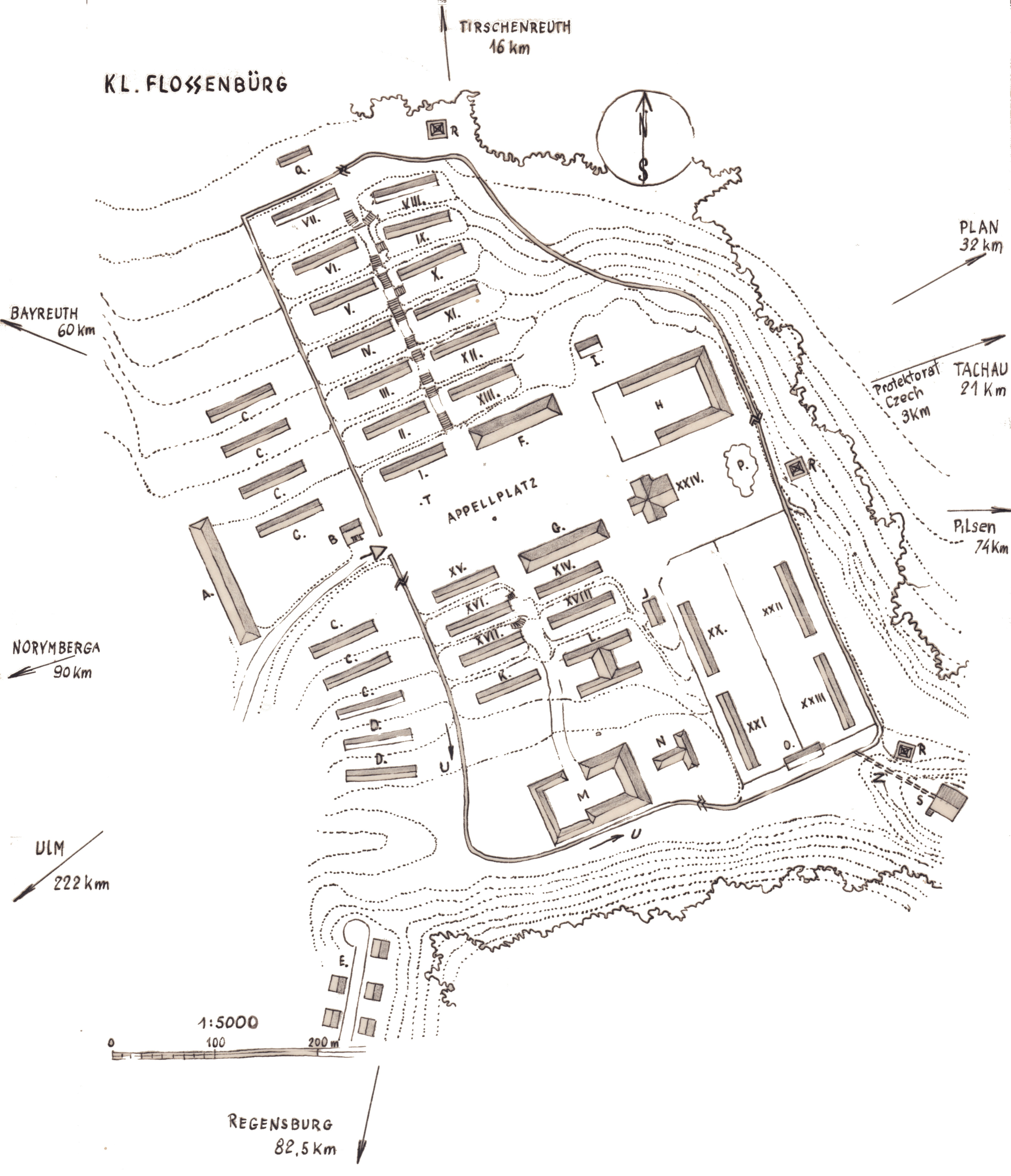 Hand drawn plan of the Flossenbürg concentration camp by Stefan Kryszak the survivor of the camp. Drawing done in ink on tracing paper. Znak/LabelPolishEnglishAKomendatura obozuCamp headquarter BGłówna brama, strażnica SSMain gate, SS watchtowerCKoszary SSSS barracksDMagazynyMagazinesEOsiedle mieszkaniowe oficerów SSHousing for SS officersFKuchniaKitchenGLaźniaBathHWarsztatyWorkshopsIWozowniaCoach houseJNamiotTentKRewir (Szpital)Sickbay (Hospital)LLekarzDoctorMBunkierBunkerNStrzelnicaShooting rangeOUstęp Kwar.ToiletsPWęgielCoalRWieże strażniczeWatchtowerQPsyDogsSKrematoriumCrematoriumTSzubienicaGallowsUDroga transportu zwłok i węgla do krematoriumRoad for moving corpses and coal to the crematoriumZPpoj. "Rutschbahn" - Rynna do spuszczania zwłok"Rutschbahn" - Gutter for sliding corpsesI-XVII, XXIV Baraki mieszkalne więźniówPrisoner barracksXX-XXIIIBaraki kwarantanny ("Zugangi")Quarantine barracks ("Zugangi")Ogrodzenie (pod napięciem) Electric fence